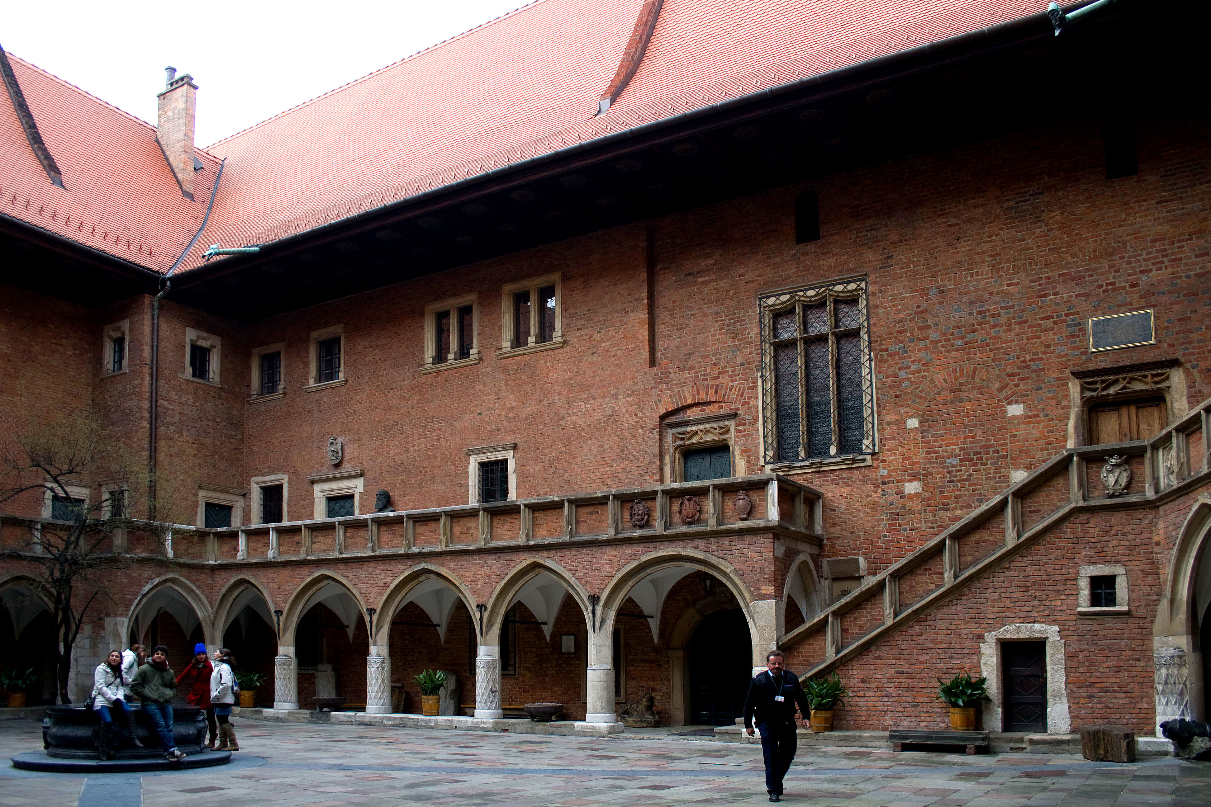 Collegium Maius, Kraków, Poland